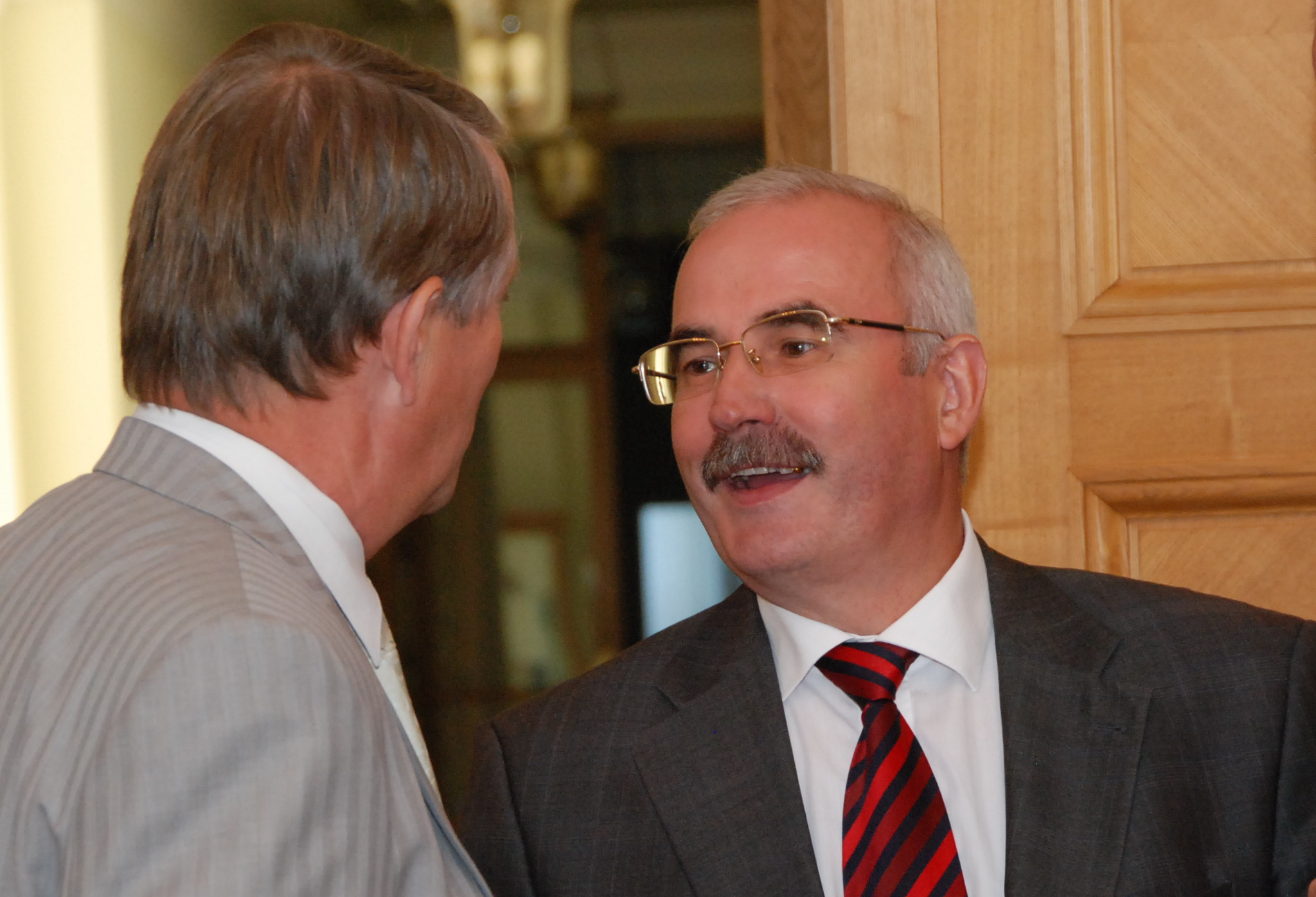 Mayor of Jelgava Andris Rāviņš.